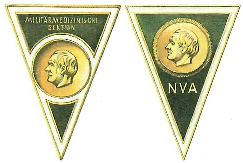 Graduates badge for individuals, received education at the “Military Medical Section” of the GDR „Ernst-Moritz-Arndt-University“, two different versions.